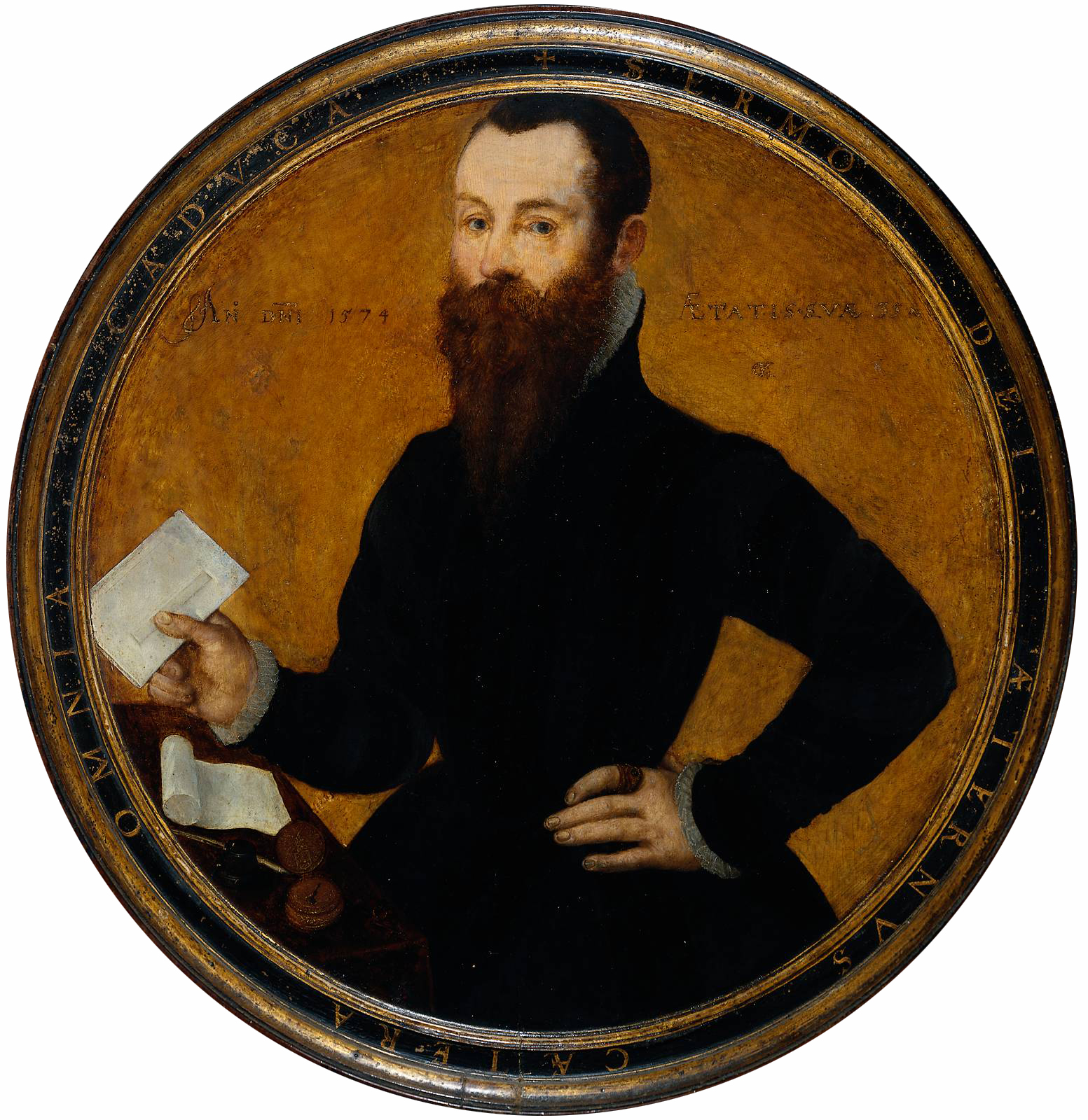 Two sided panel painting with a portrait of a man, probably that of German merchant Adam Wachendorff, on one side, and a naked putto blowing bubbles in a landscape on the other side.